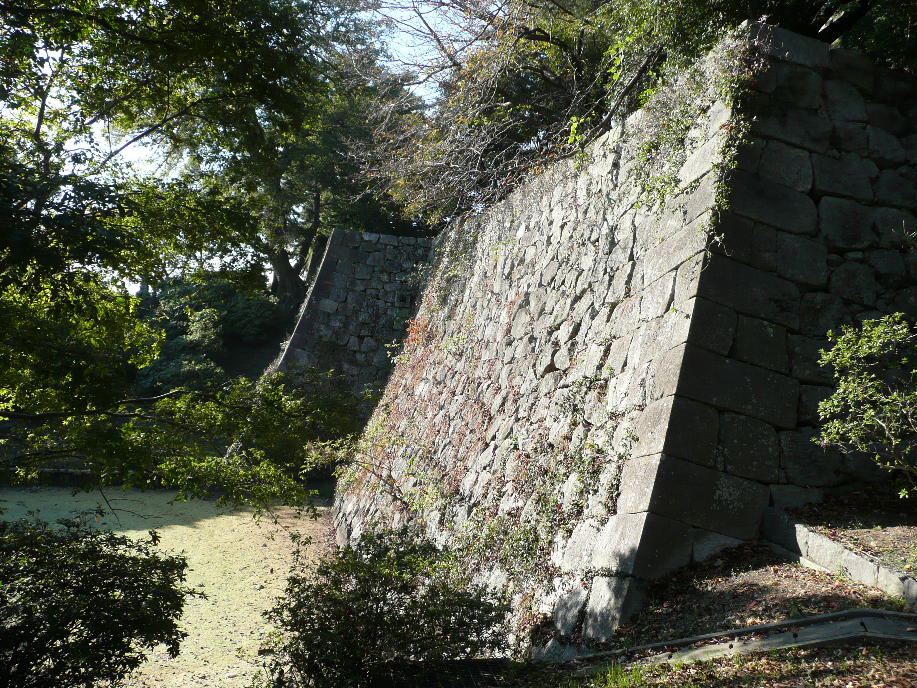 久留米城の石垣